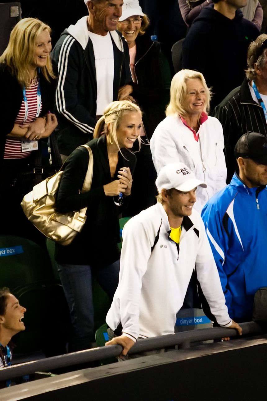 Bec Hewitt is amused by the Channel 7 commentator Jim Courier's comments. Australian Open 2010, Melbourne, Australia